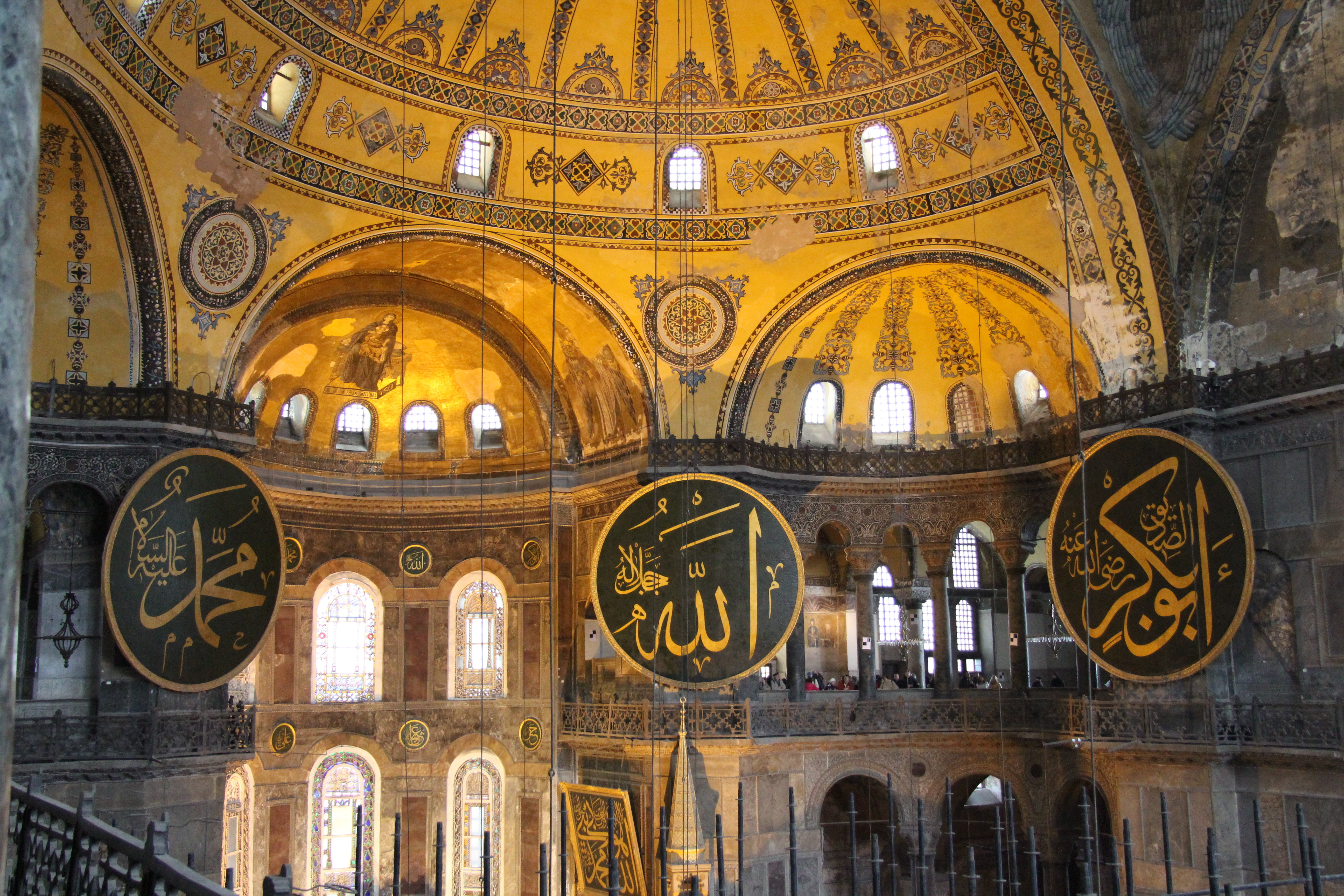 Interior of Hagia Sophia, Istanbul, Turkey, with the name signs of Muhammad, Allah and Abu Bakr (from left to right)